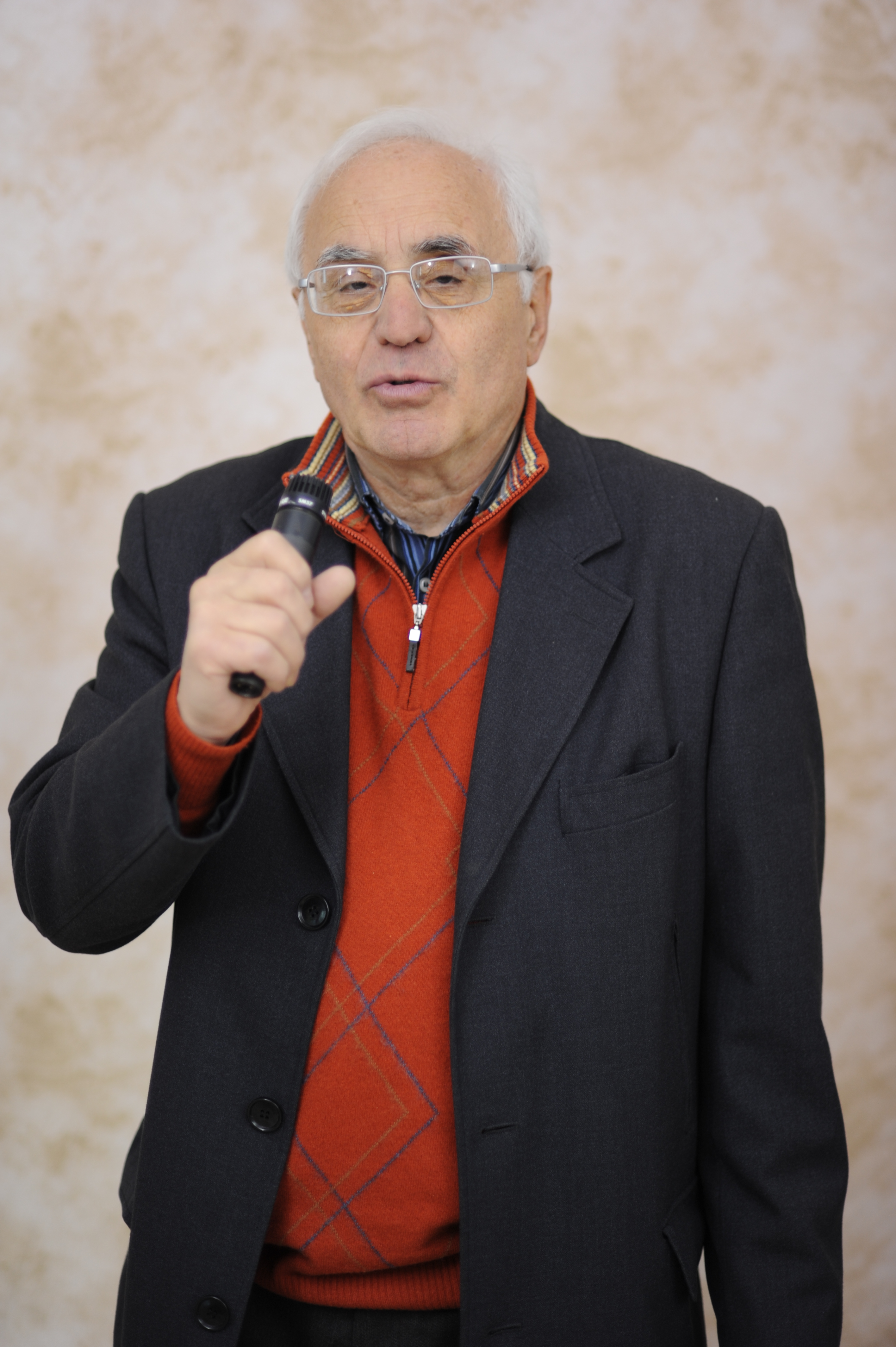 Romualdo Luzi, ceramics and local history expert